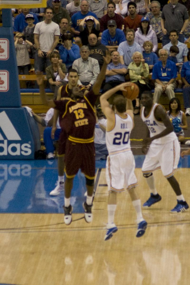 James Harden (basketball) on defense against the UCLA Bruins men's basketball team